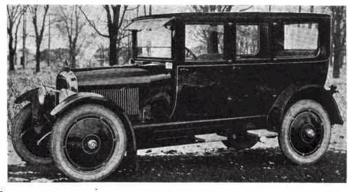 Maibohm Model B-6 Sedan 1922